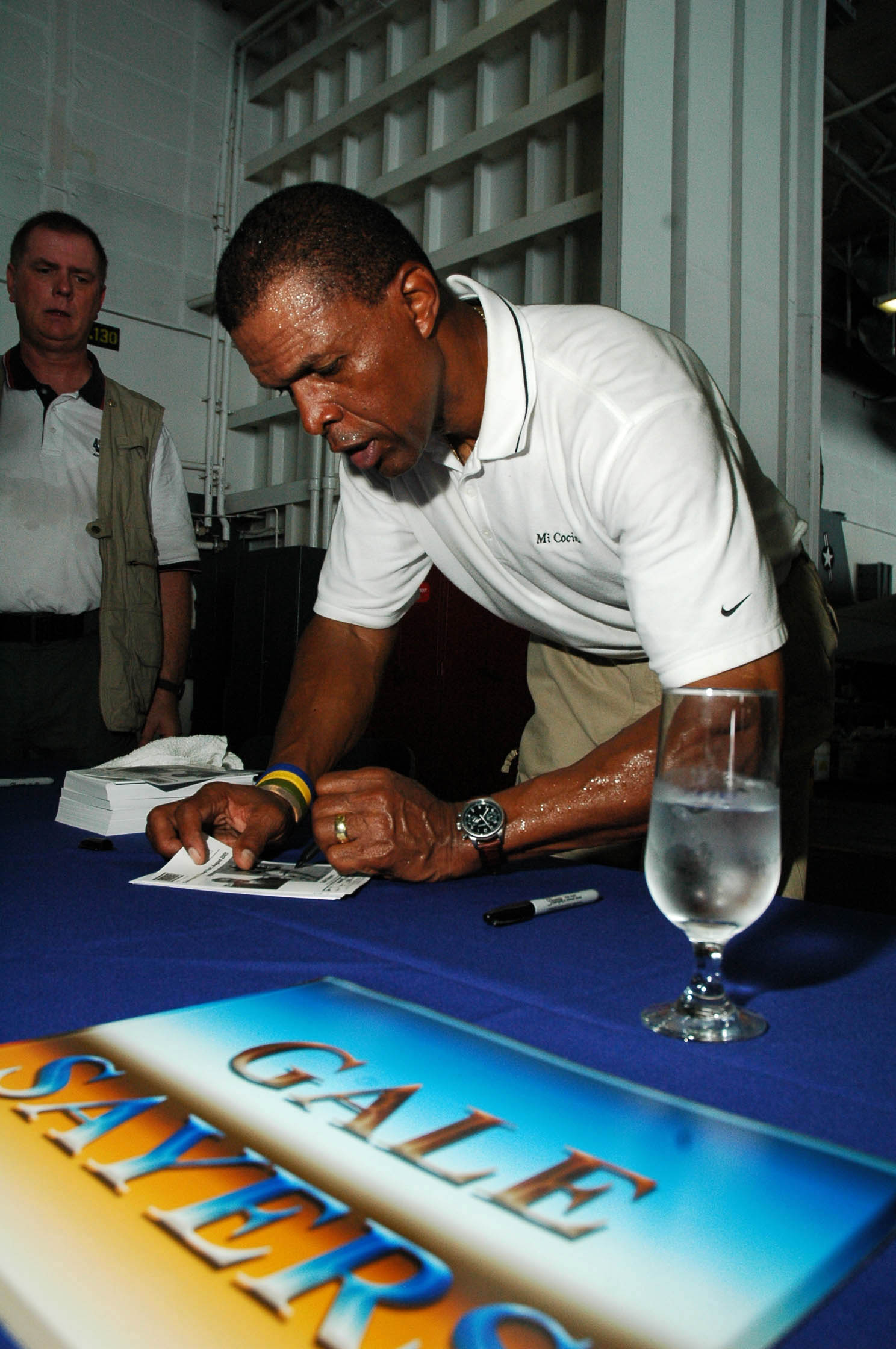 Retired Football Hall of Fame running back of the Chicago Bears (1965-1971), Gal Sayers, signs autographs for the crew following a USO show held aboard the nuclear-powered aircraft carrier USS Nimitz (CVN 68). The Nimitz Carrier Strike Group is currently on a regularly scheduled deployment and is participating in Maritime Security Operations (MSO). MSO set the conditions for security and stability in the maritime environment as well as complement the counter-terrorism and security efforts of regional nations. MSO deny international terrorists use of the maritime environment as a venue for attack or to transport personnel, weapons, or other material.